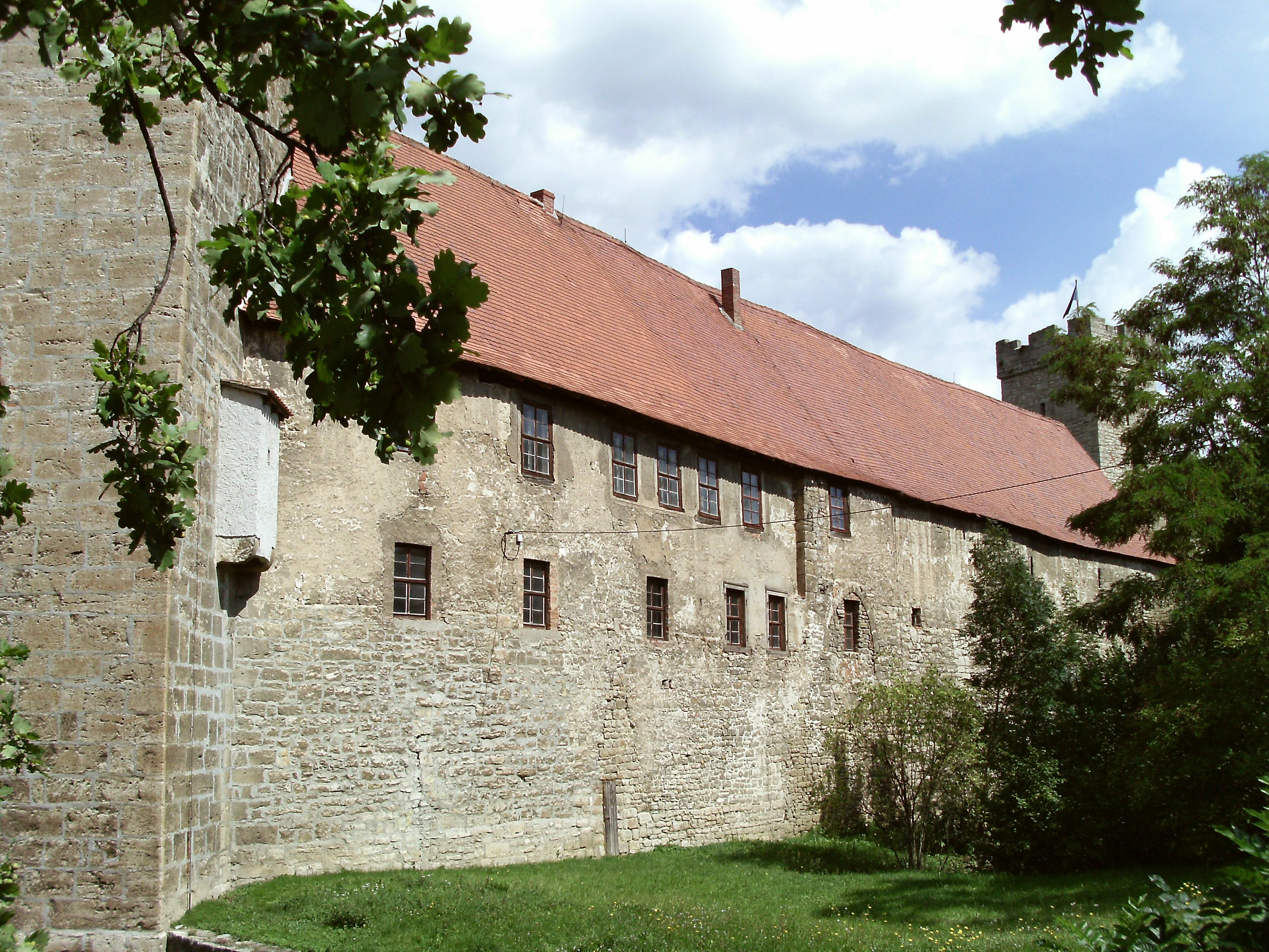 South side of Kapellendorf Castle (district of Weimarer Land, Thuringia)